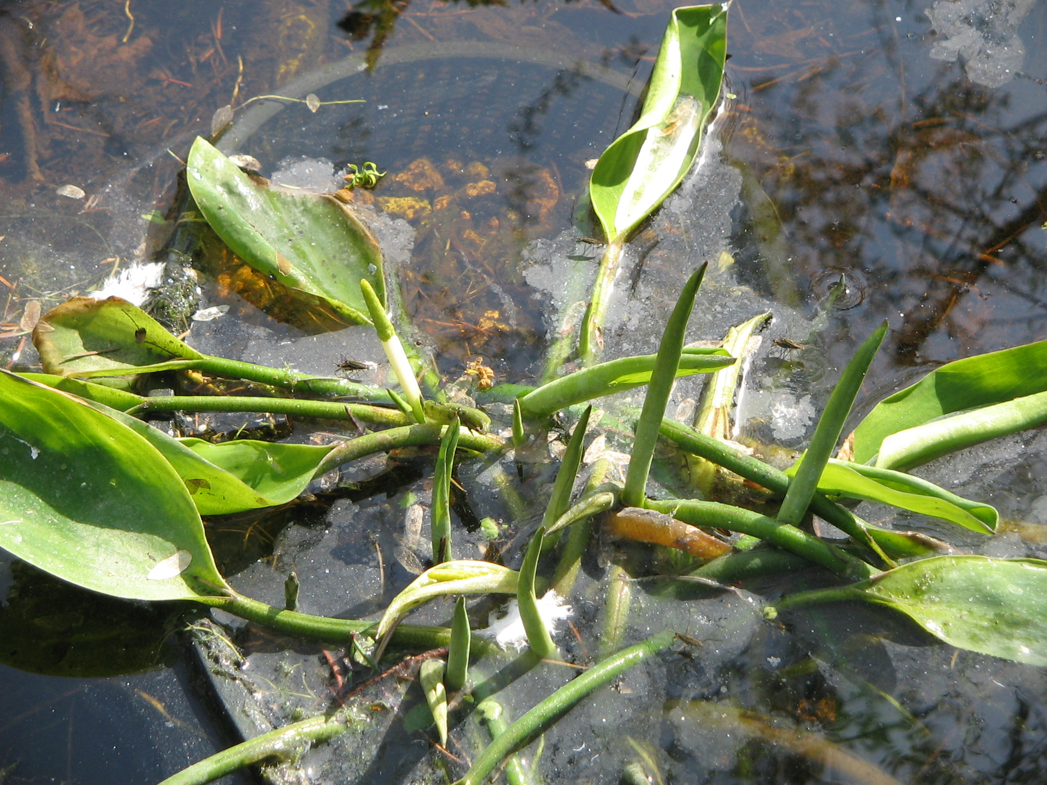 Orontium aquaticum opening